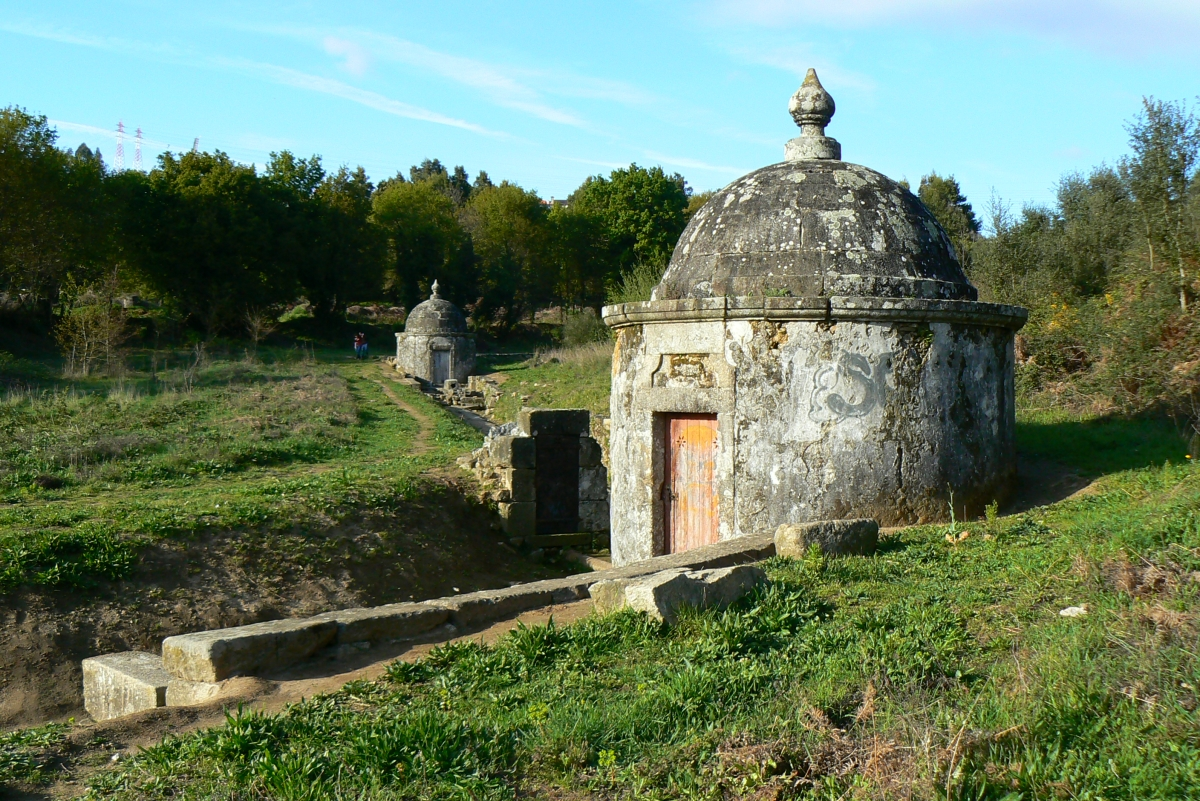 Mina do Dr. Alvim - de cima, Mina do Dr. Alvim - de baixo (1744) with the closeby Mina Preta. The two first are Mães de Aguas (Mothers of water) at Sete Fontes in Braga, Portugal. Part of the old potable water supply system built in the mid-18th century.